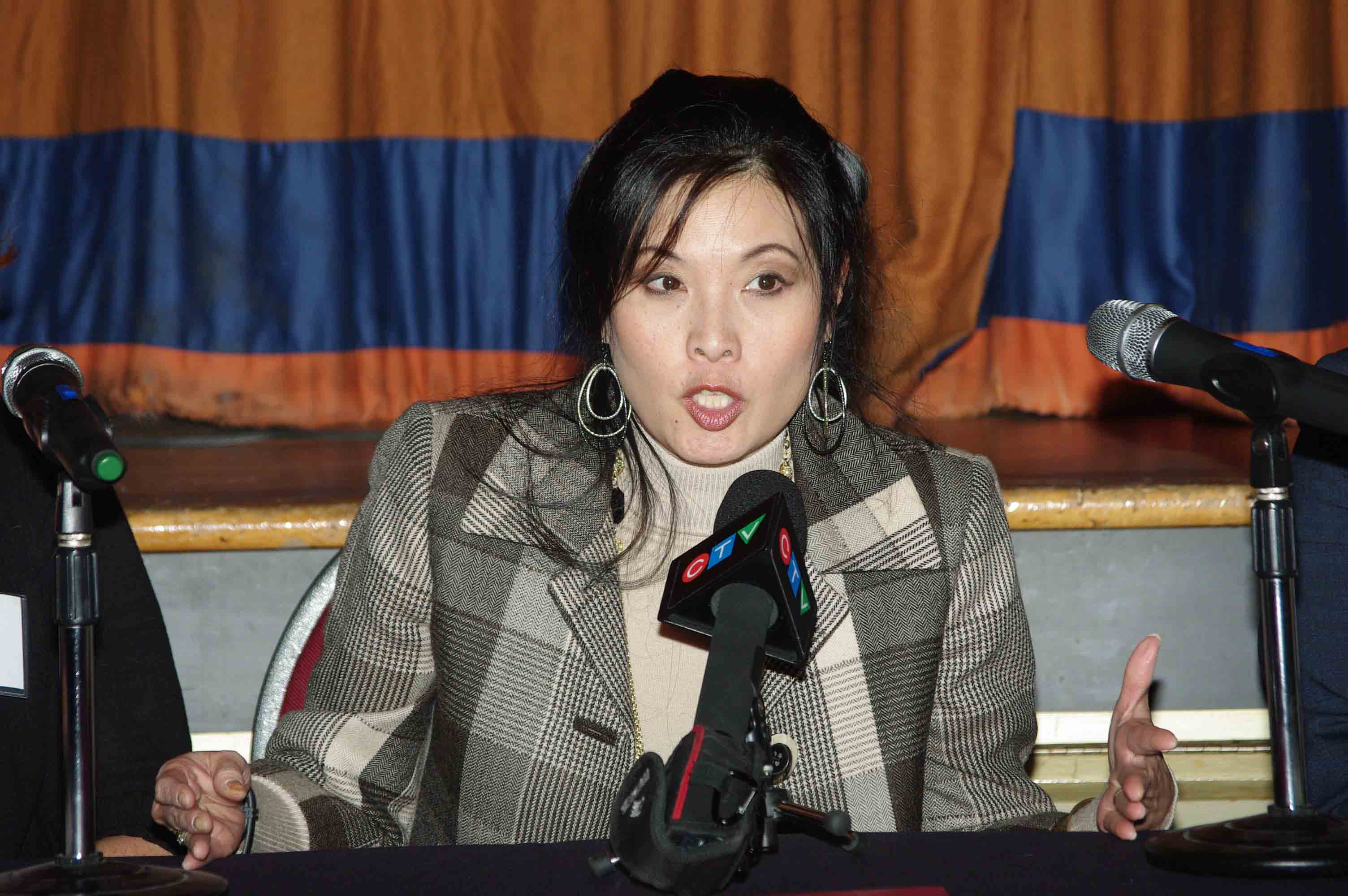 Pulitzer Prize-winning journalist/author Sheryl WuDunn, is seen here during a press conference held in Montreal, Canada on Oct. 23, 2012.